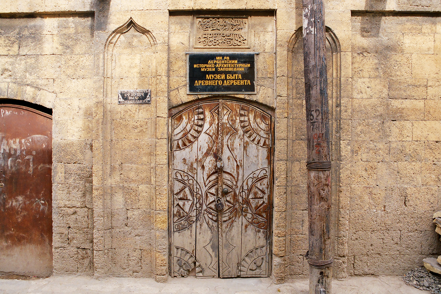 Dagestan museum in Derbent — Republic of Dagestan of southwestern Russia.